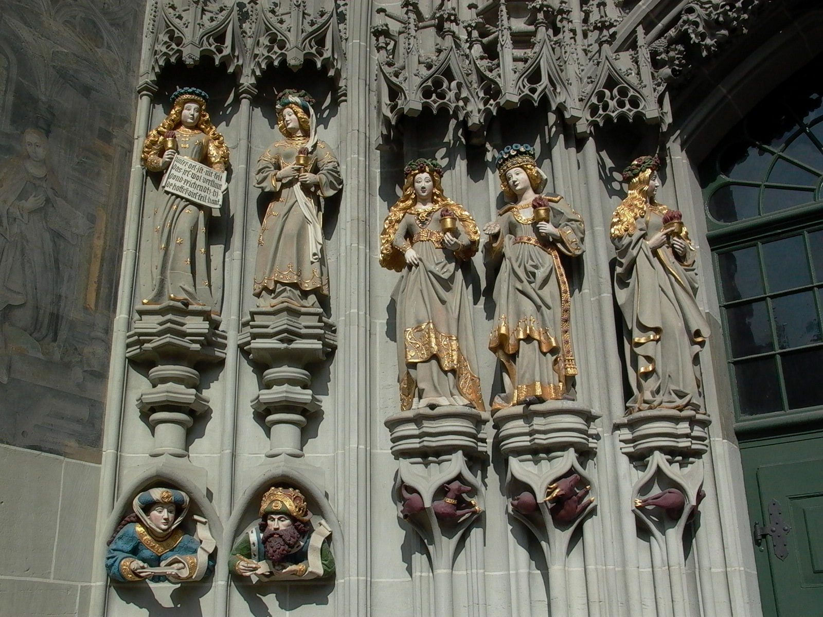 The wise virgins, sculptures (ca. 1460-1481) by Erhart Kueng (1420-1507), main portal, Minster, Berne, Switzerland